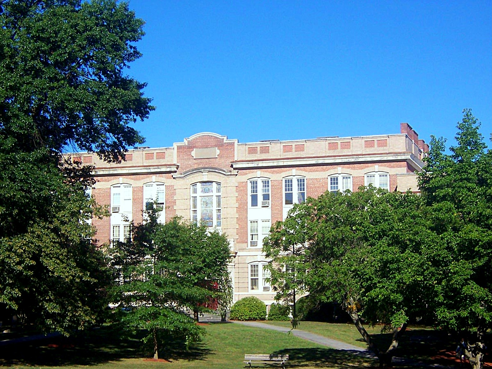 Photographed by Daniel Case 2005-08-24